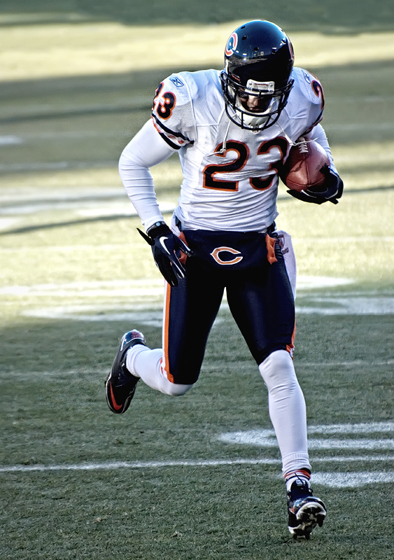 Lambeau Field - January 2, 2011. Photo by Mike Morbeck.